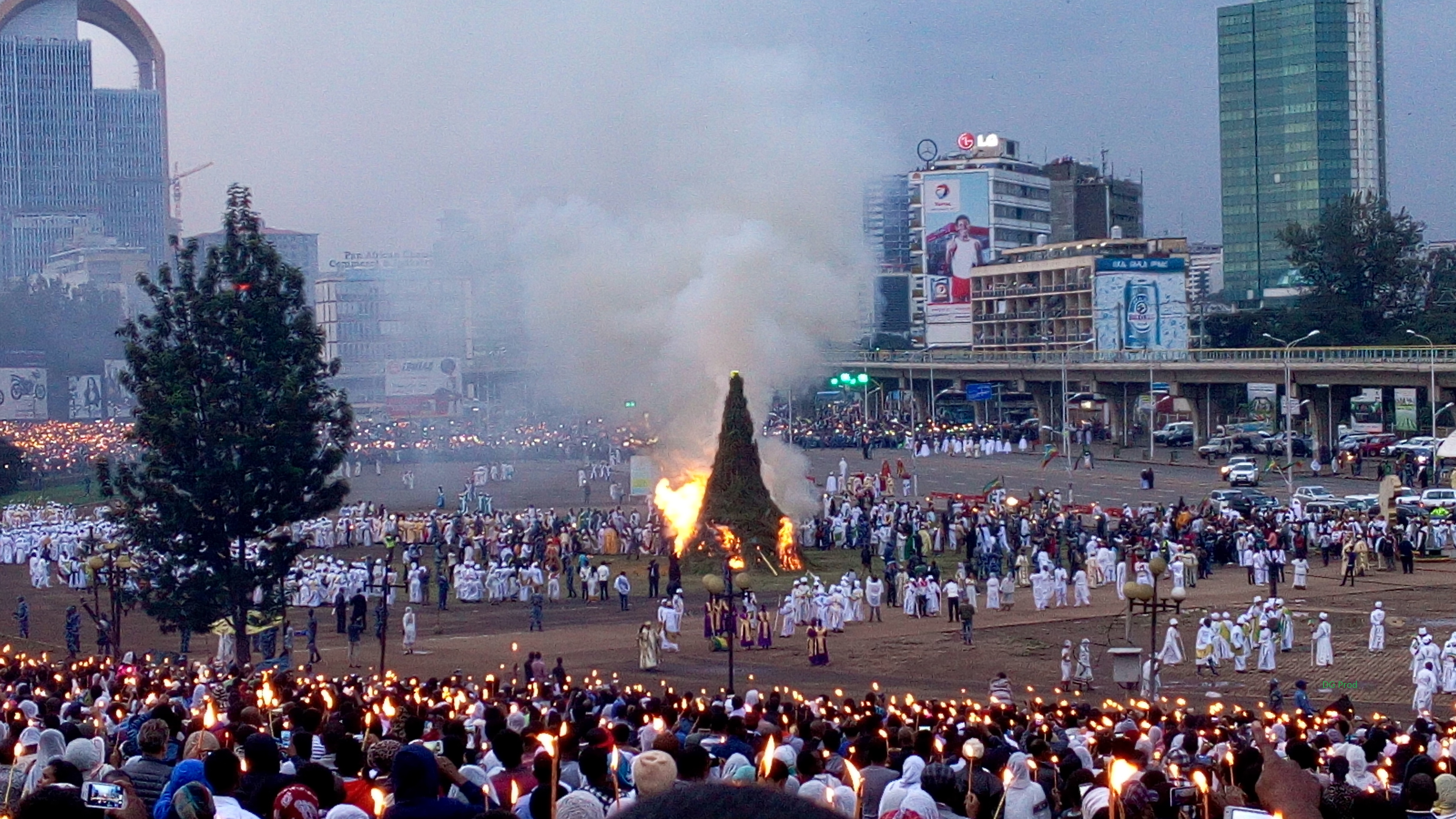 Meskel Celebration , 2016 This is an image of music and dance from Ethiopia